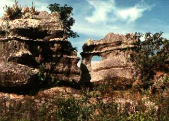 Macarena Range